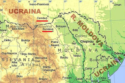 Physical map of Moldova and surrounding areas, including Bukovina. Highlighted the towns: Chernivtsi (Cernăuţi) in Ukraine and Suceava in Romania.